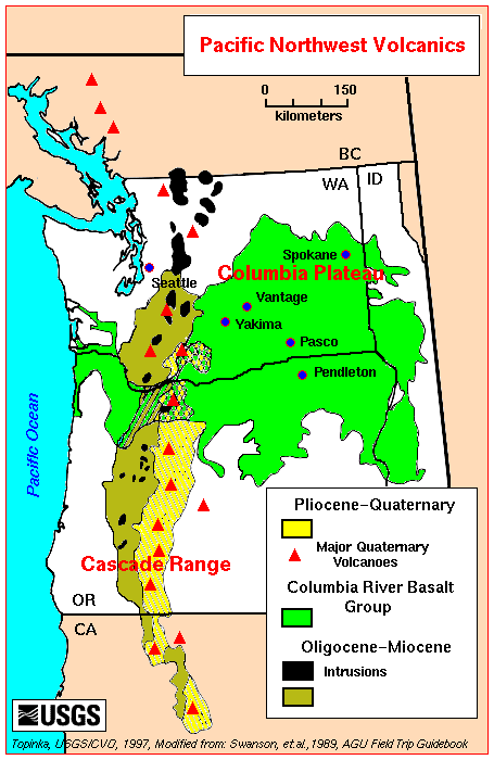 USGS map of volcanic areas in US Pacific Northwest. Note: This version misses an important edit to the version on Wikipedia. -Peteforsyth 19:49, 4 April 2008 (UTC)